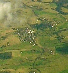 Aerial photo of Jamberoo NSW